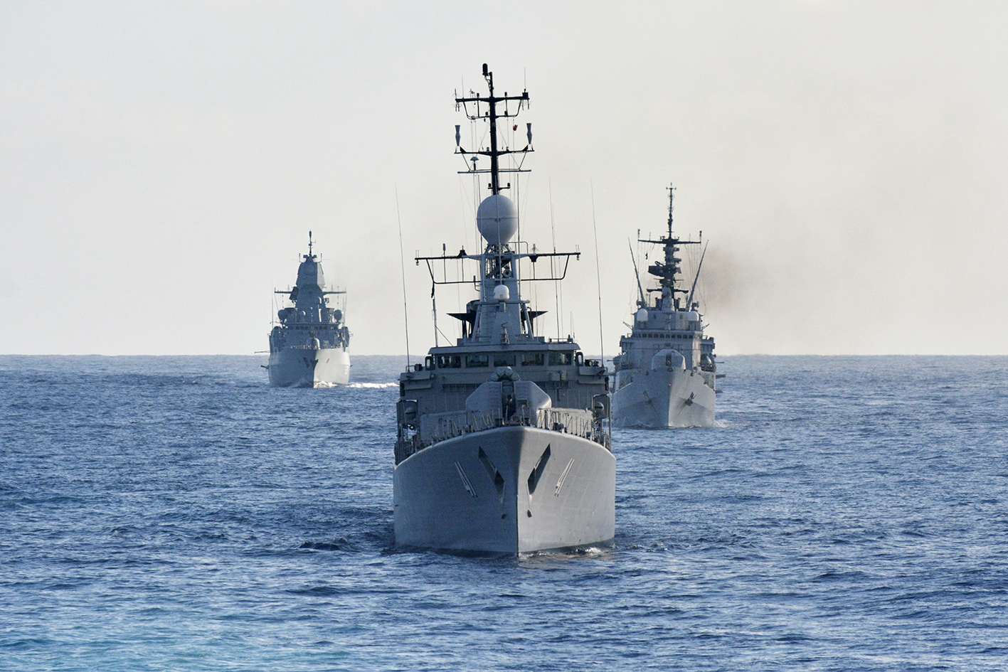 20151024_DEU_AB_8 MEDITERRANEAN SEA -- While participating in NATO's Exercise TRIDENT JUNCTURE 2015, the combined task group composed of SNMG2 units and three further ships are conducting a manoeuvring exercise during which the ships are sailing in different formations. Depicted from front to back are Bulgarian frigate DRAZKI, Italian frigate ZEFFIRO and German frigate SACHSEN (October 24, 2015). The units of Standing NATO Maritime Group 2 (SNMG2) are sailing in the Mediterranean Sea, inter alia, participating in multinational exercises and Operation ACTIVE ENDEAVOUR, showing presence of the Alliance and conducting routine port visits in NATO and Non-NATO countries. Credit: German Navy photo by Photographer PO1/OR-6 Alyssa Bier (released)